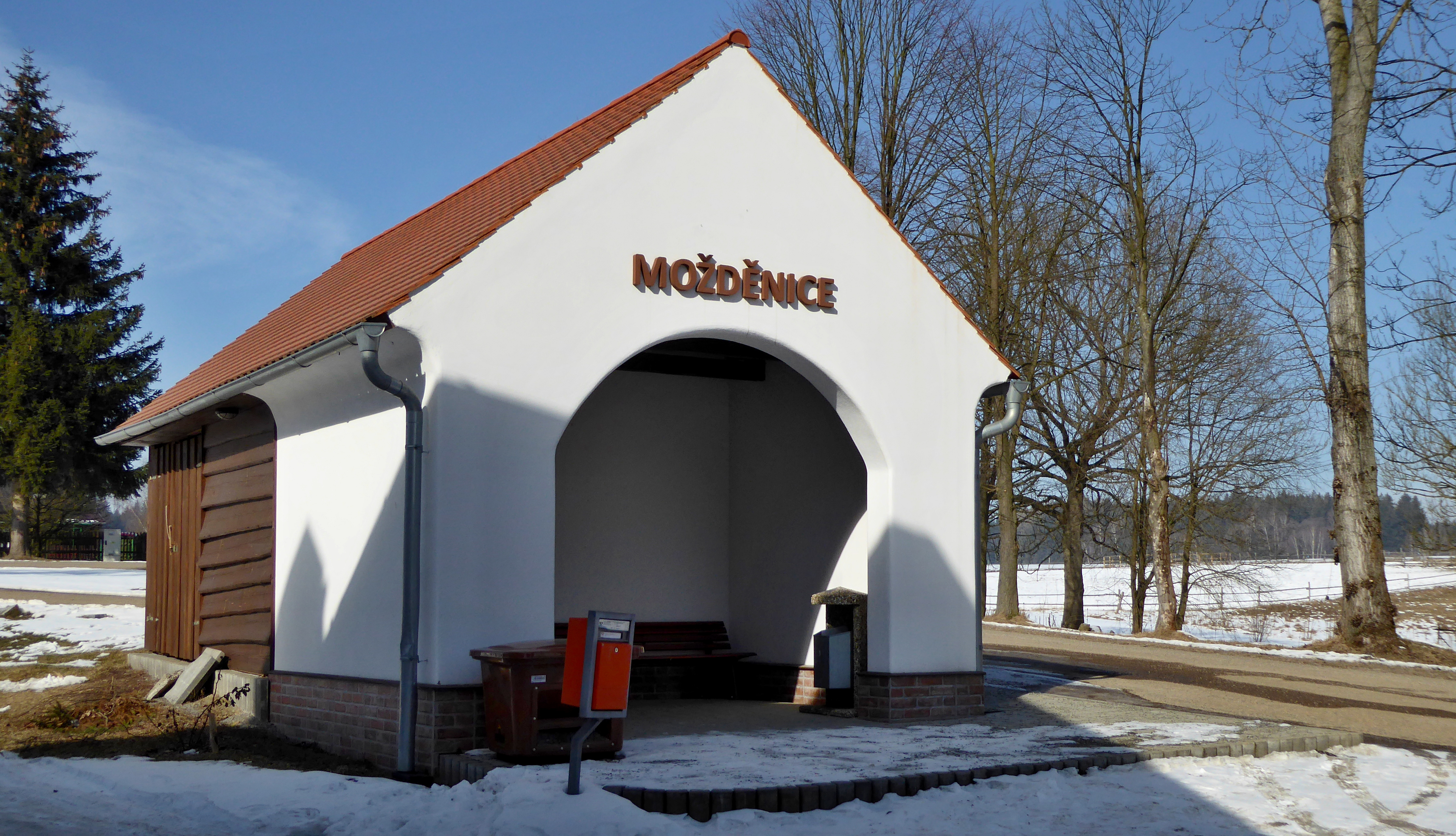 Waiting room of bus stop in the hamlet of "Možděnice", the village of Vysočina in the Chrudim district belonging to the Pardubice Region in the Czech Republic. The Pardubice Region in 2015 awarded the village of "Vysočina" a award "Golden Brick" for the building of bus stop. The village of "Vysočina" received a "Golden Ribbon" in the Pardubice Region and also received second place in the competition of the "Villages of the Year 2015" (Rural regeneration program). In the settlement is led a yellow hiking route of the Czech Tourists Club. Photo location: Czechia, Pardubice Region, municipality Vysočina, the hamlet of "Možděnice", "Stružinecká" knoll hill.